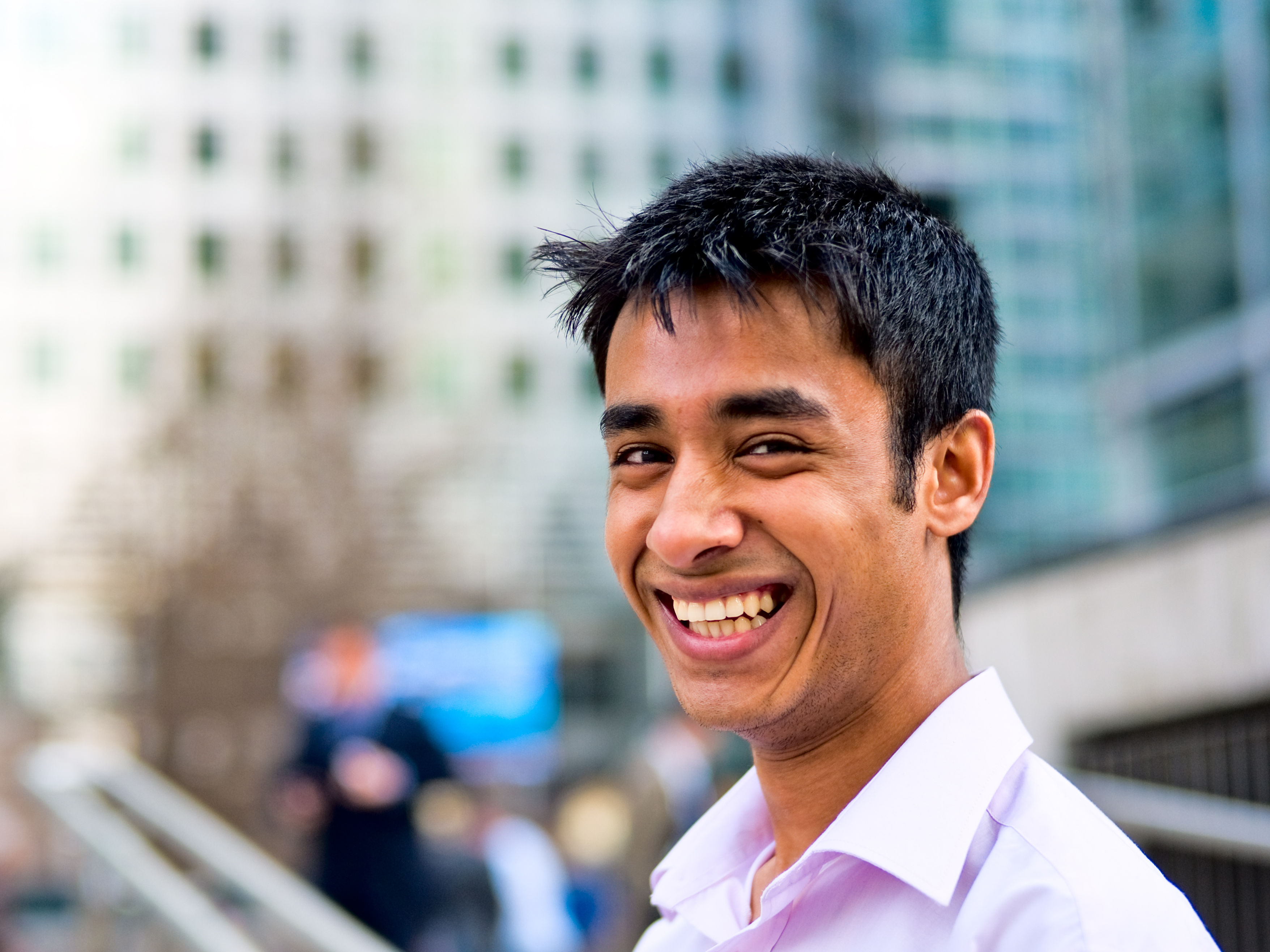 Sabirul Islam